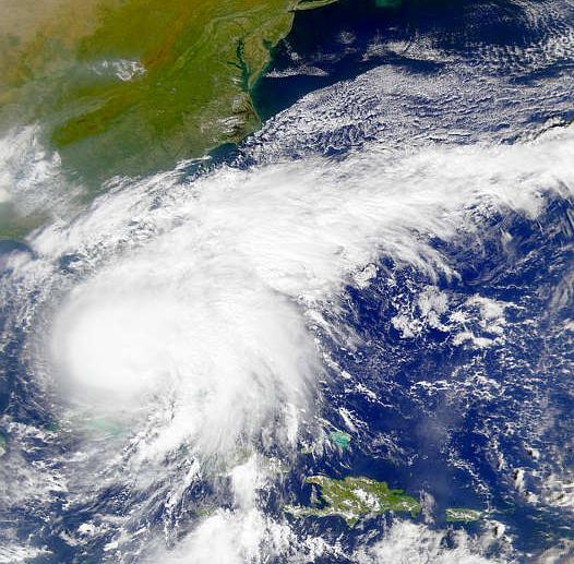 A cropped image of Hurricane Irene making landfall on Florida in October of 1999